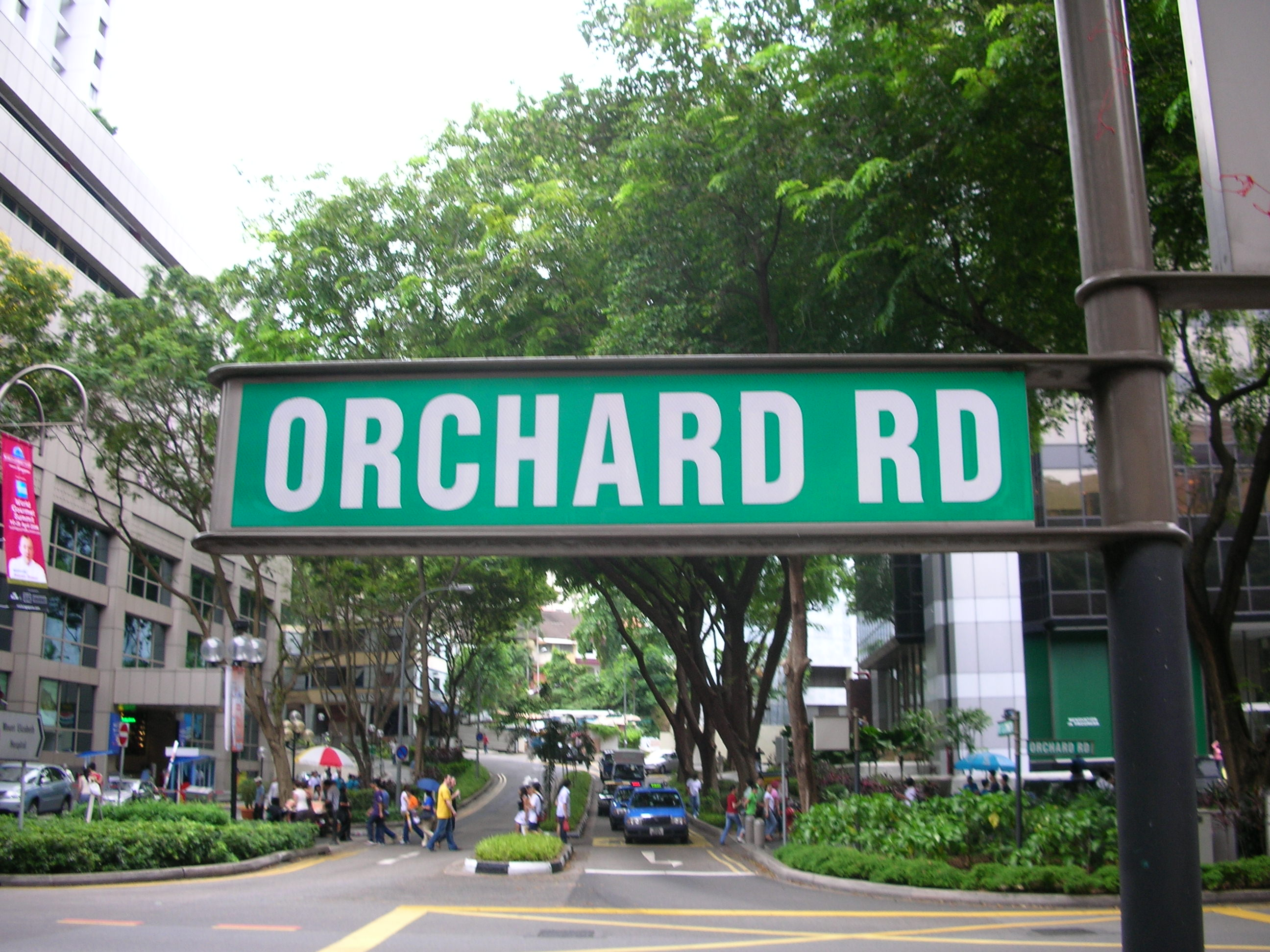 Street sign for Orchard Road in Singapore.